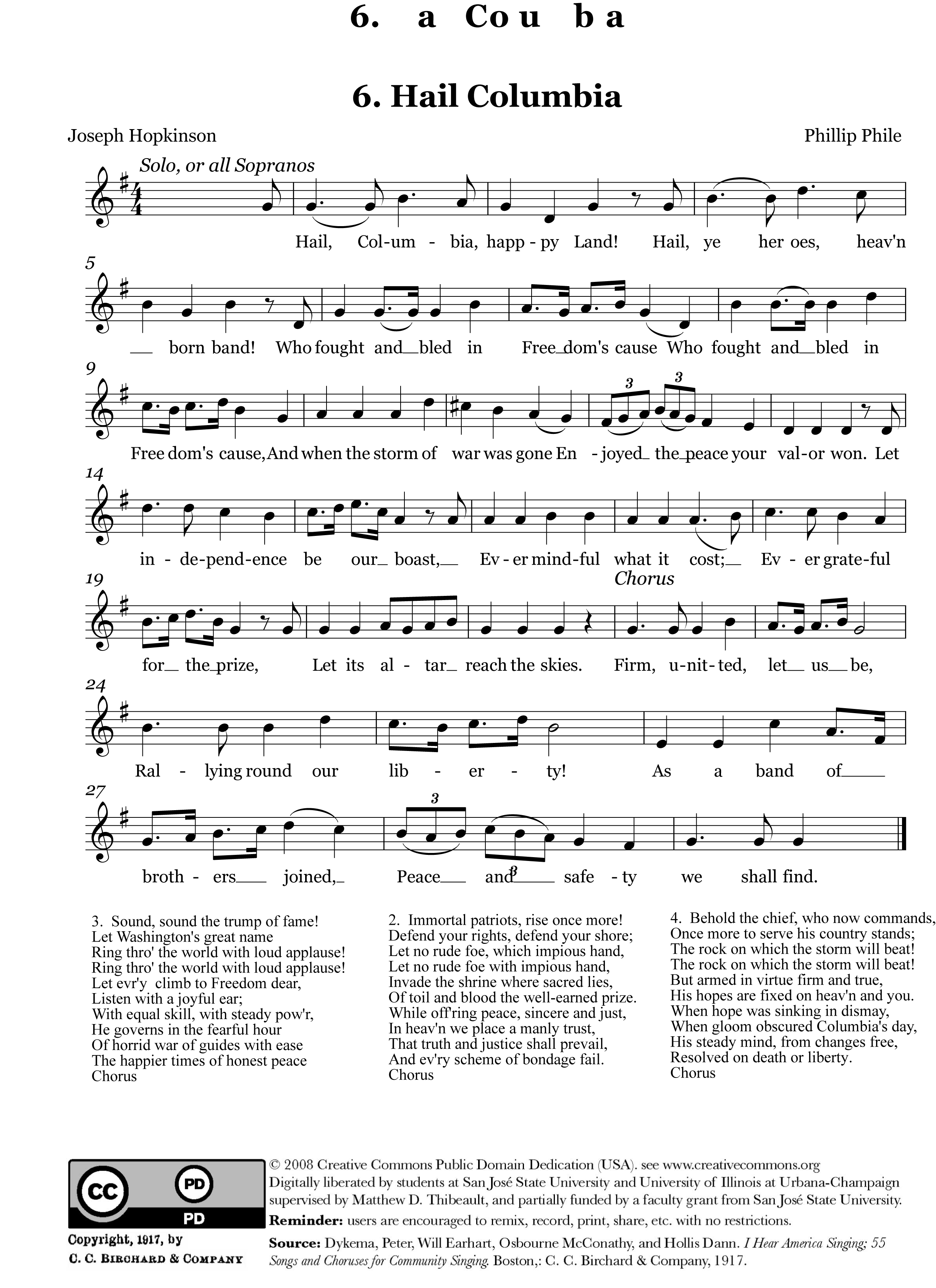 Hail, Columbia